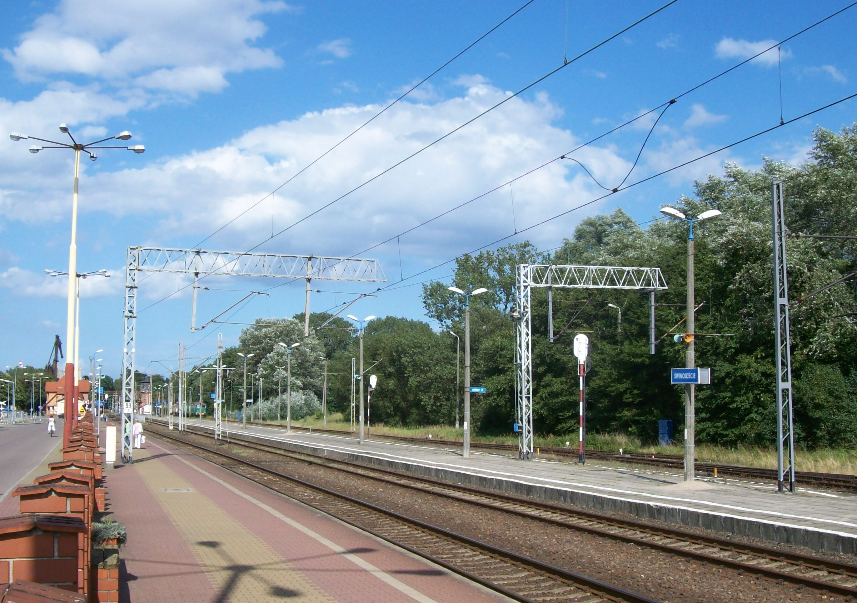 Platforms on train station of Świnoujście, Poland.